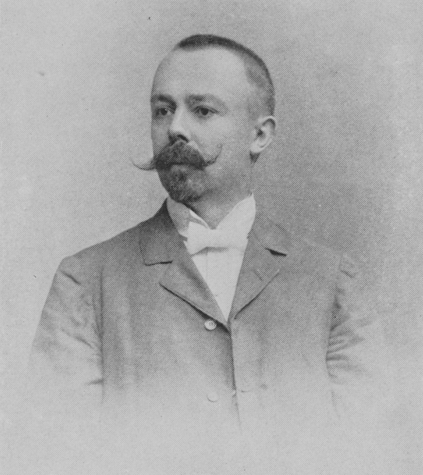 Portrait of Alois Škampa (1861 - 1907), Czech poet.